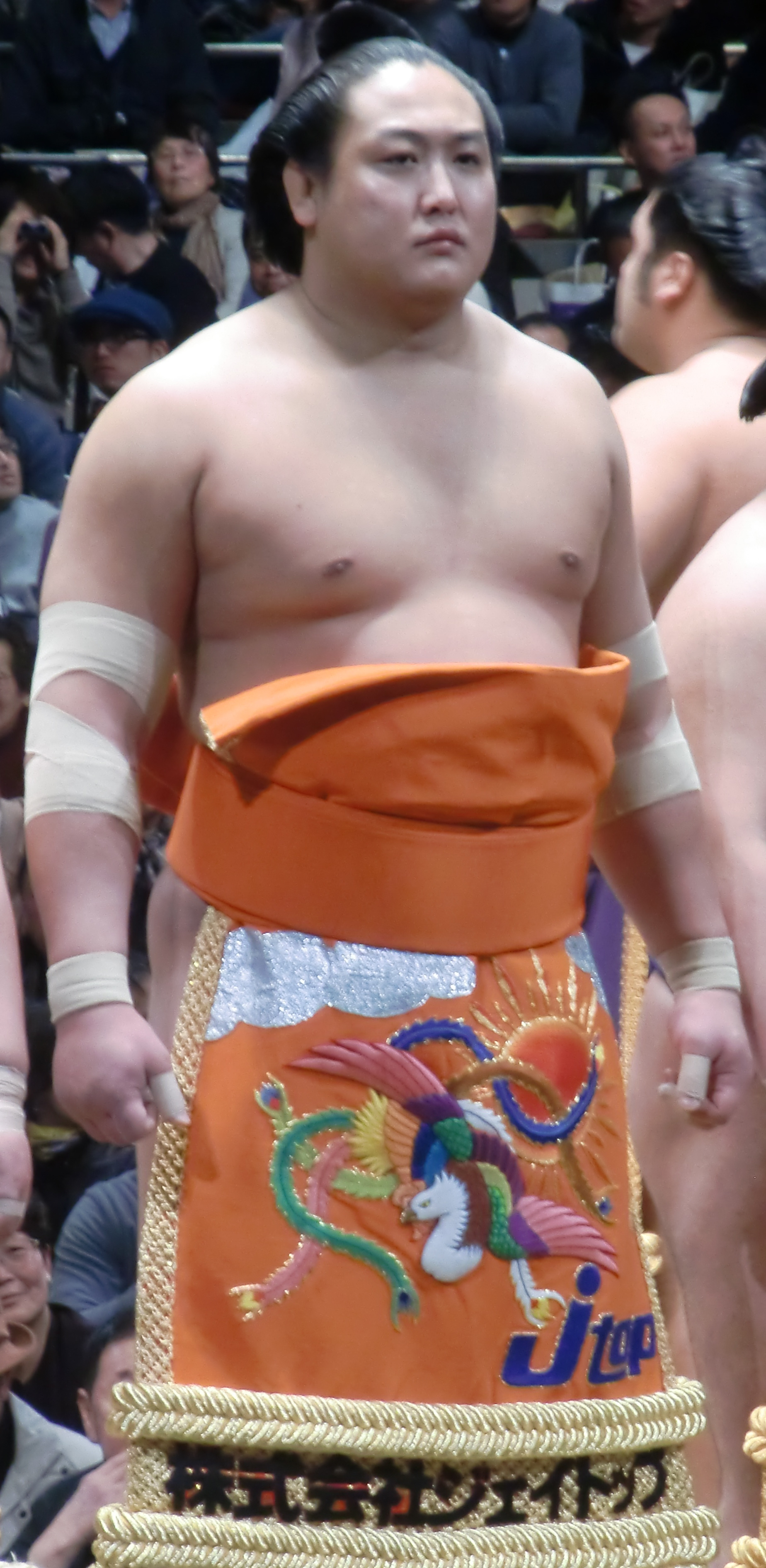 taken at 2012 Jan tournament